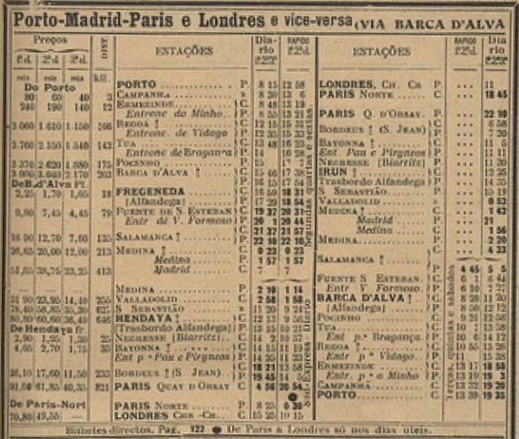 1913 timetable for the internacional trains from Porto (São Bento), in Portugal, to Madrid, Paris and London, via Barca de Alva. This image was published on the Guia Official dos Caminhos de Ferro de Portugal No. 168, of October 1913, and scanned by the Biblioteca Nacional de Portugal.